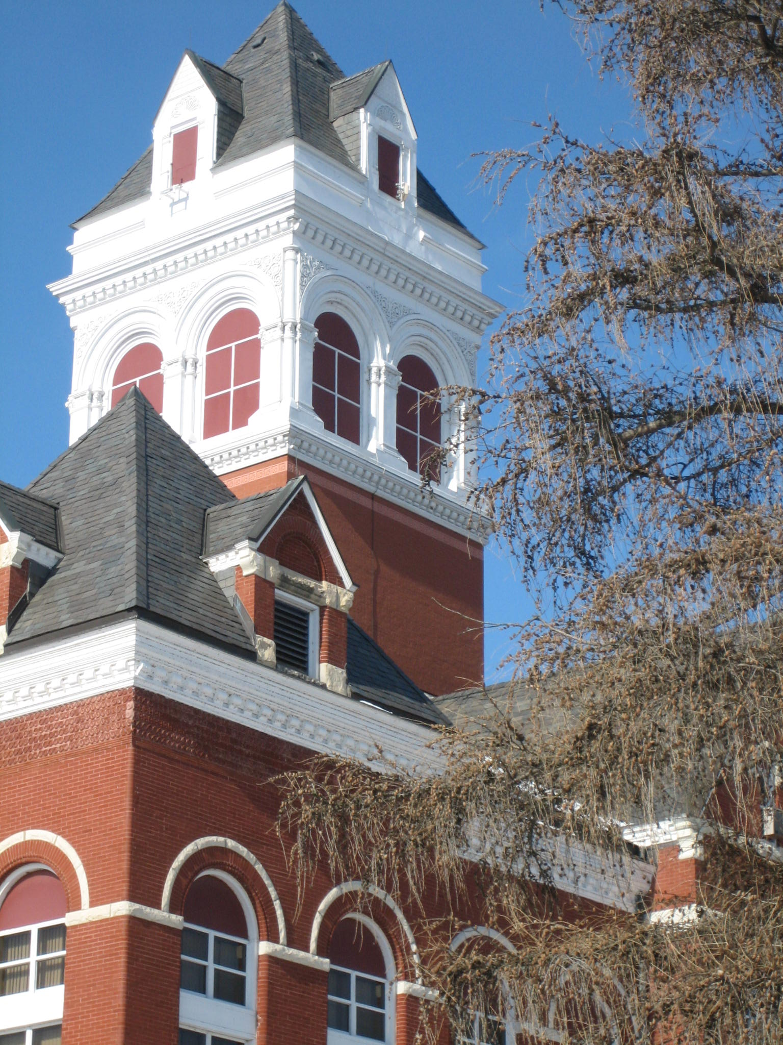 Old Ogle County Courthouse, Oregon, Illinois. National Register of Historic Places.